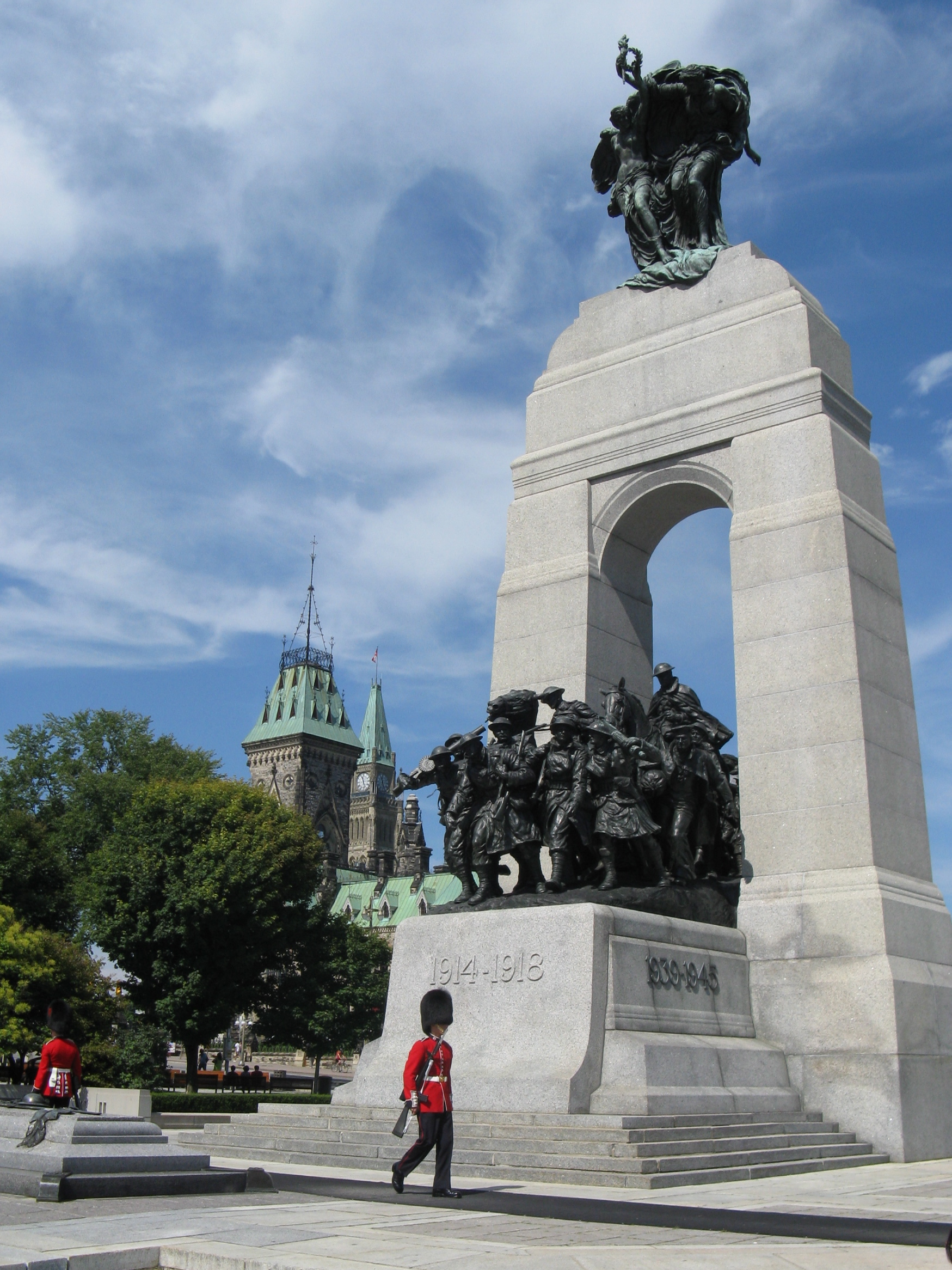 Ceremonial guards march by the Tomb of the Unknown Soldier at the National War Memorial in Ottawa, Canada.